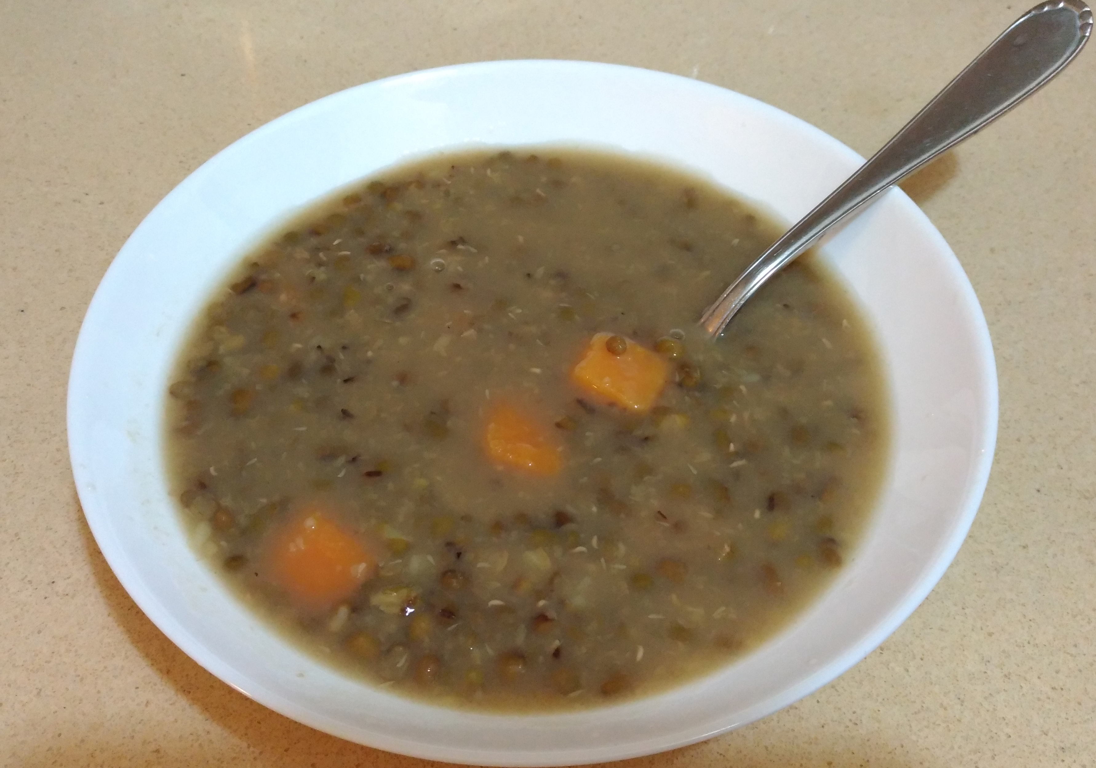 Taiwanese mung bean soup with sweet potato balls